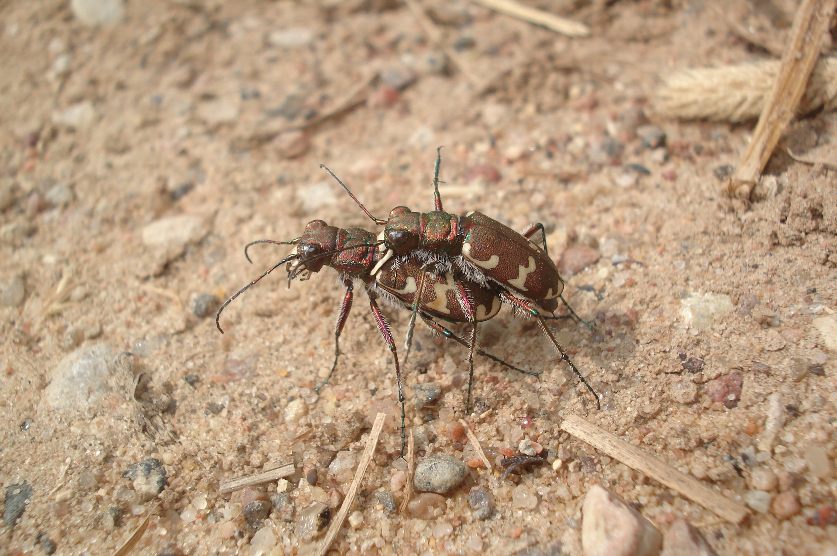 Northern dune tiger beetle (Cicindela hybrida)